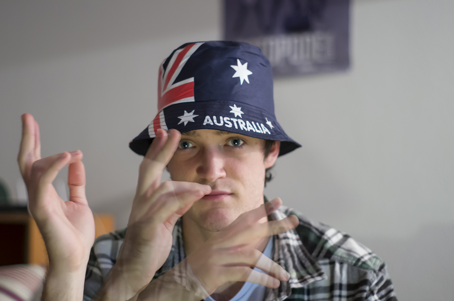 Demonstration of the hand movement of the Aussie salute, 'buggering' off the flies.